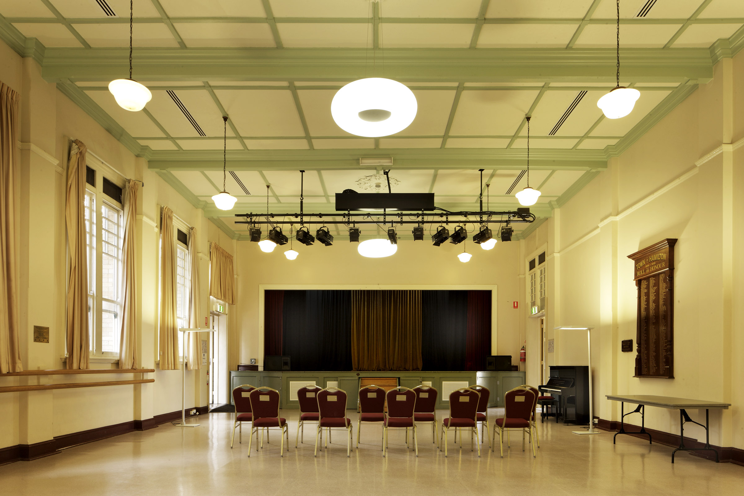 Hall, stage and piano. Hall holds 120 people standing or 100 banquet style.